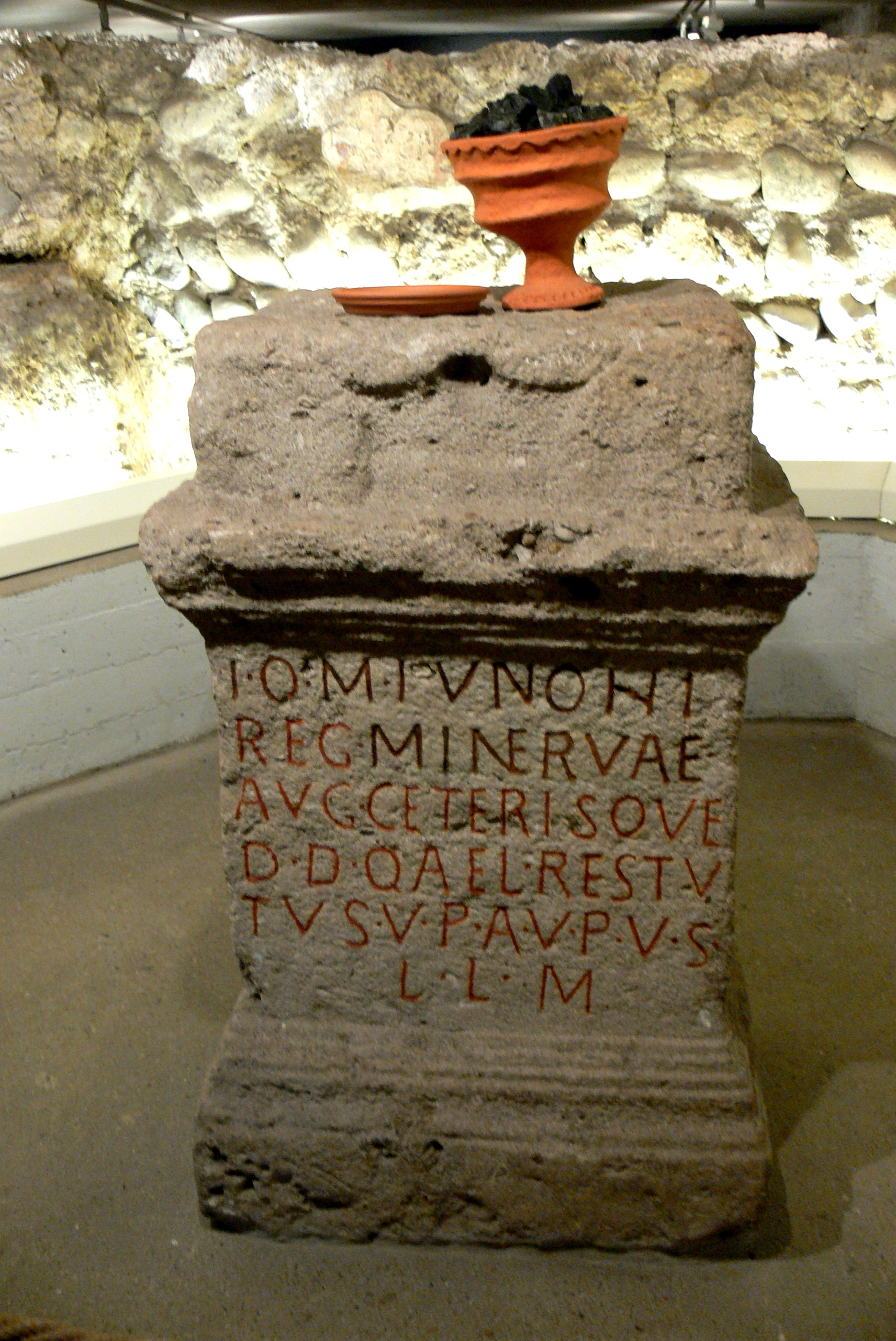 Lorch ( Enns/Upper Austria ). Basilica of Saint Lawrence:Ancient Roman altar with the inscription: "I(ovi) O(ptimo) M(aximo) IUNONI REG(inae) MINERVAE AUG(ustae) CETERISQUE D(iis) D(eabus) Q(ue) AEL(ius) RESTITUTUS V(ir) P(erfectissimus) A(gens) V(ices) P(raesidis) V(otum) S(olvit) L(aetus) M(erito)" ( For the best and greatest Jupiter, Queen Juno, the excellent Minerva and all the other gods and godesses this altar is devoted by his excellenzy Aelius Restitutus, gouvernor ( of Noricum province ), who completed his vow with pleasure and according to the merits of the gods ).